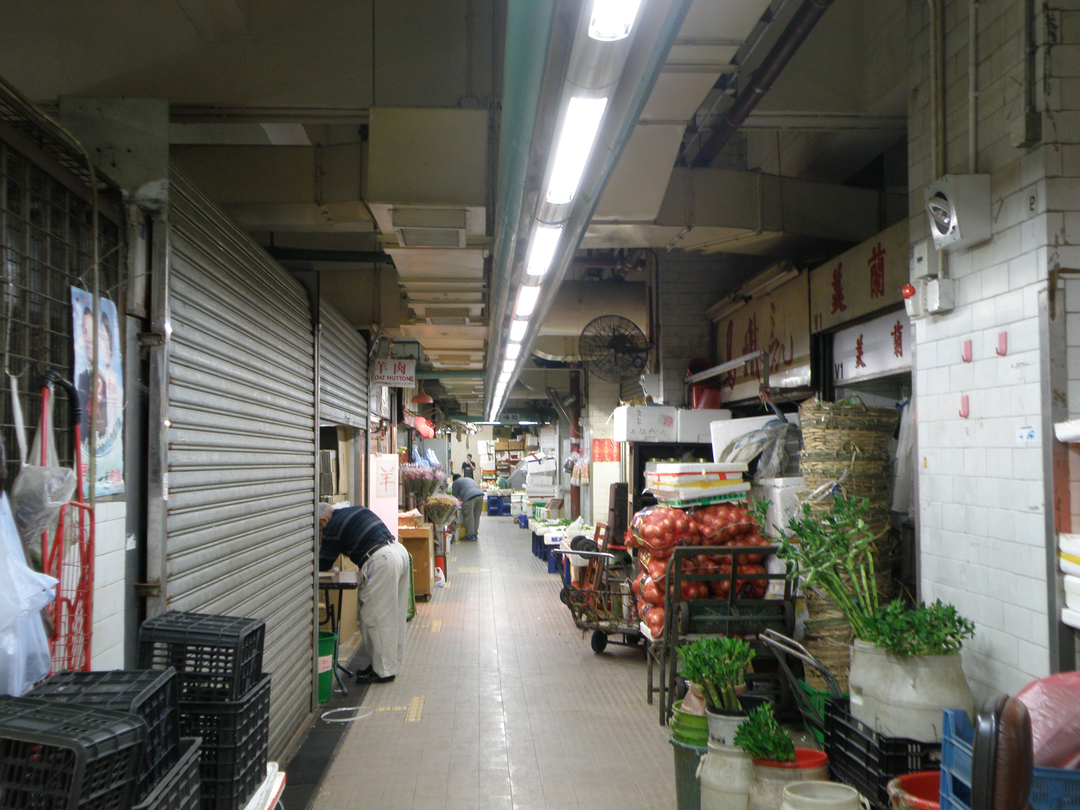 Sheung Wan Market in Sheung Wan, Hong Kong.